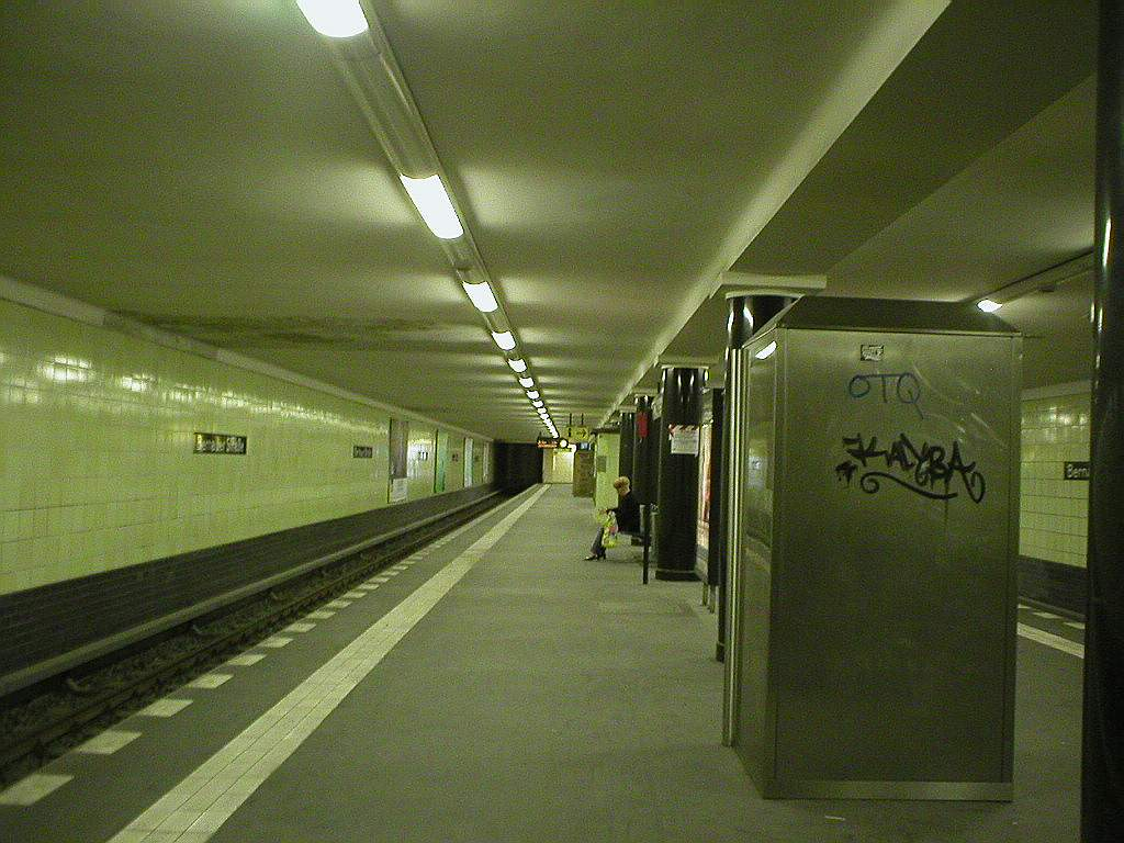 The Berlin U-Bahn station Bernauer Straße (line U8)